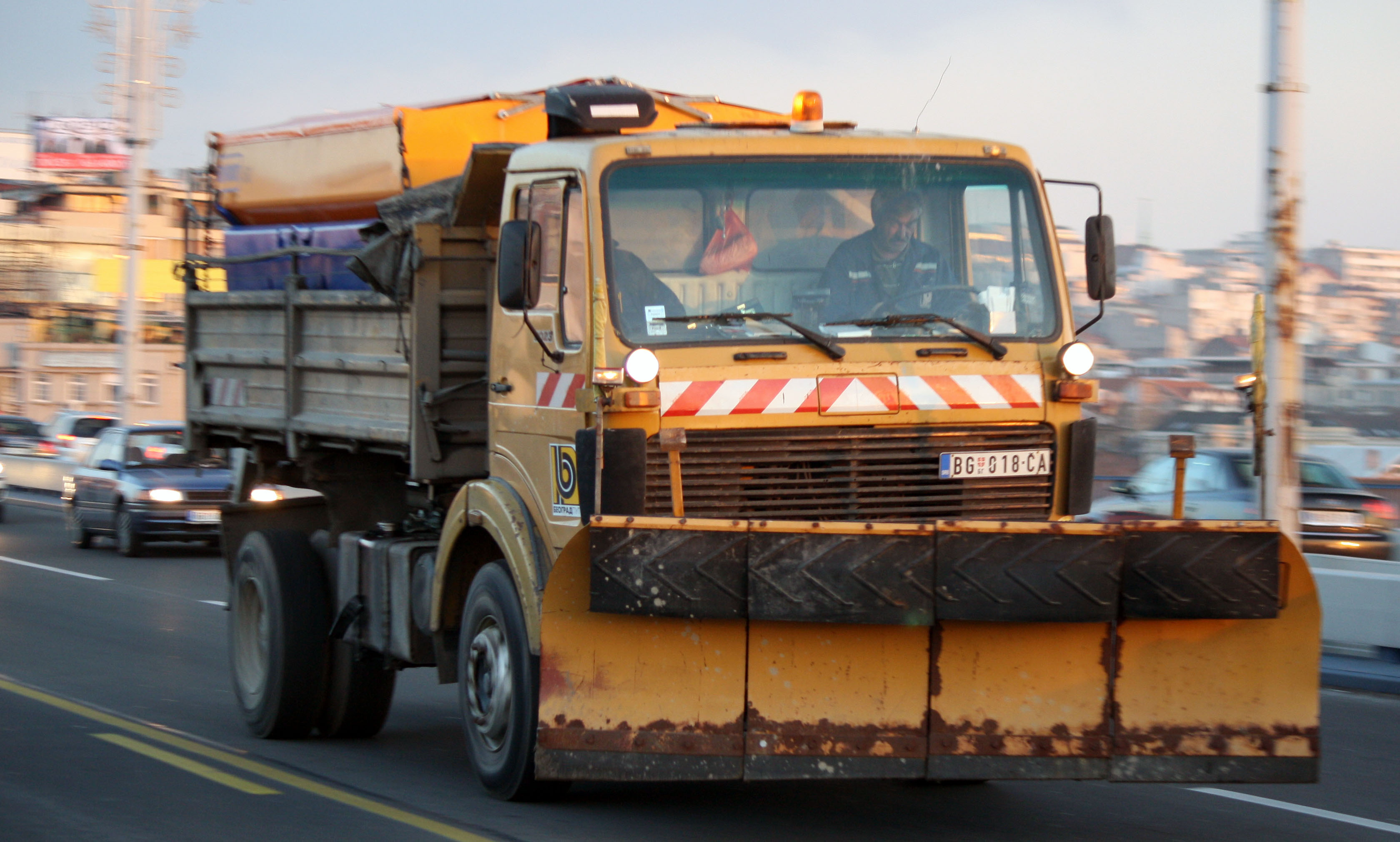 FAP 2023 truck of Beogradput equipped for snow plowing passing over Branko's bridge.